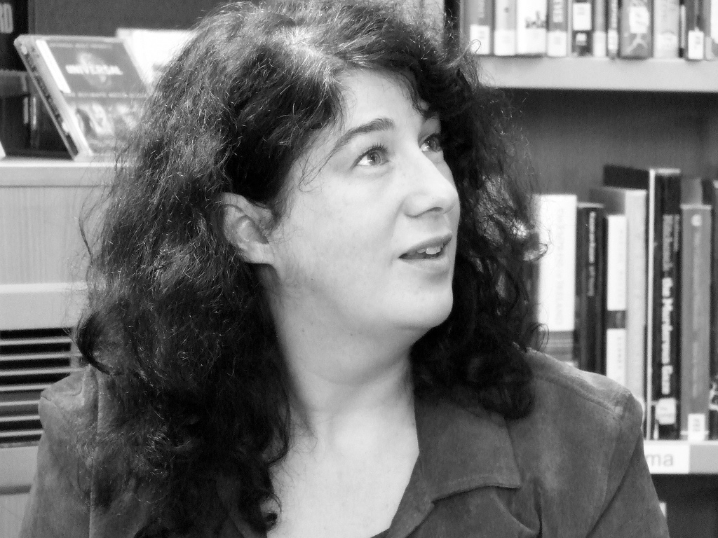 Joanne Harris, British writer by Kyte Photography